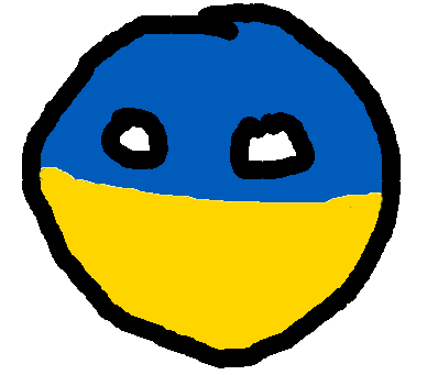 Ukraineball